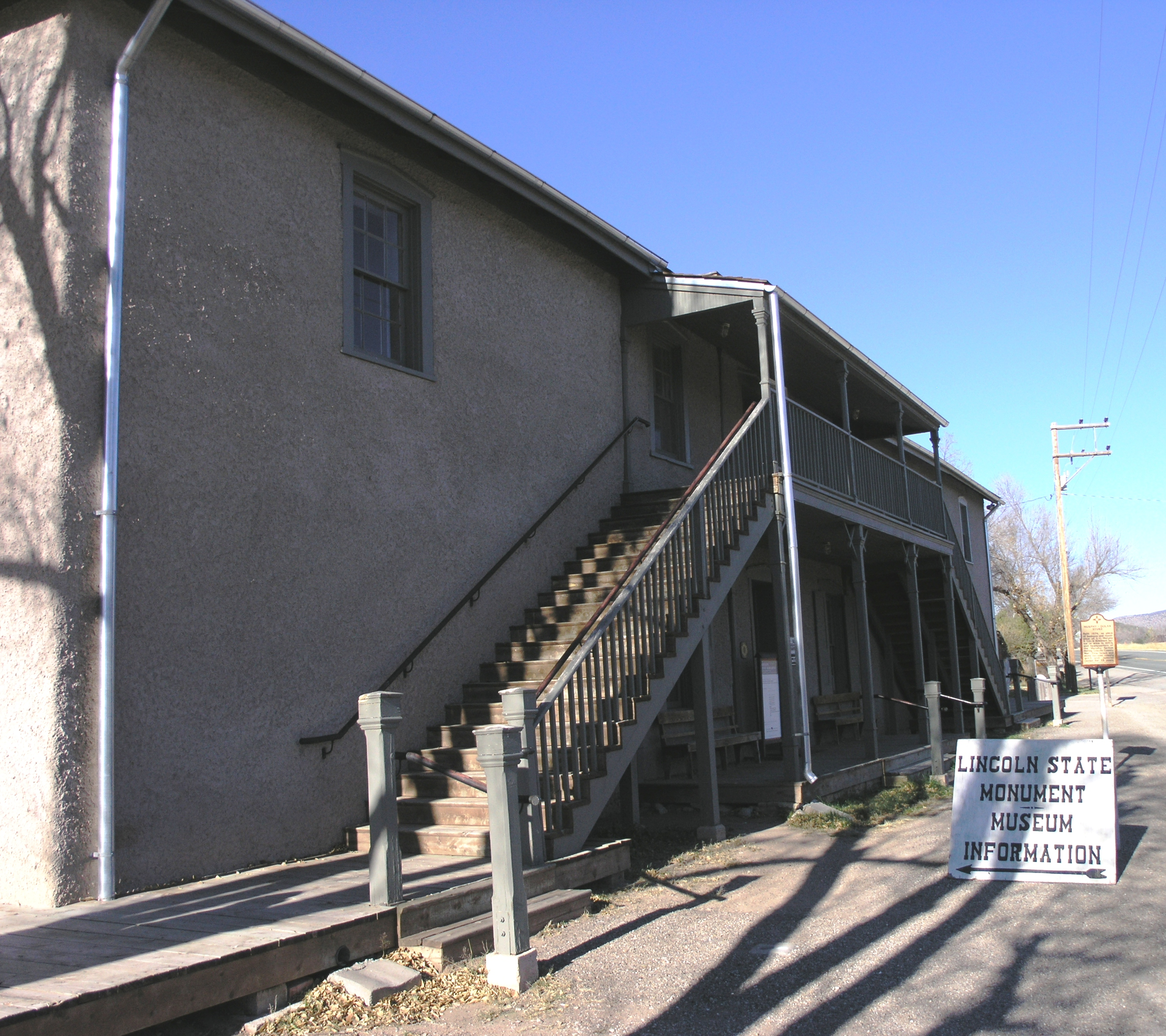 Lincoln, New Mexico